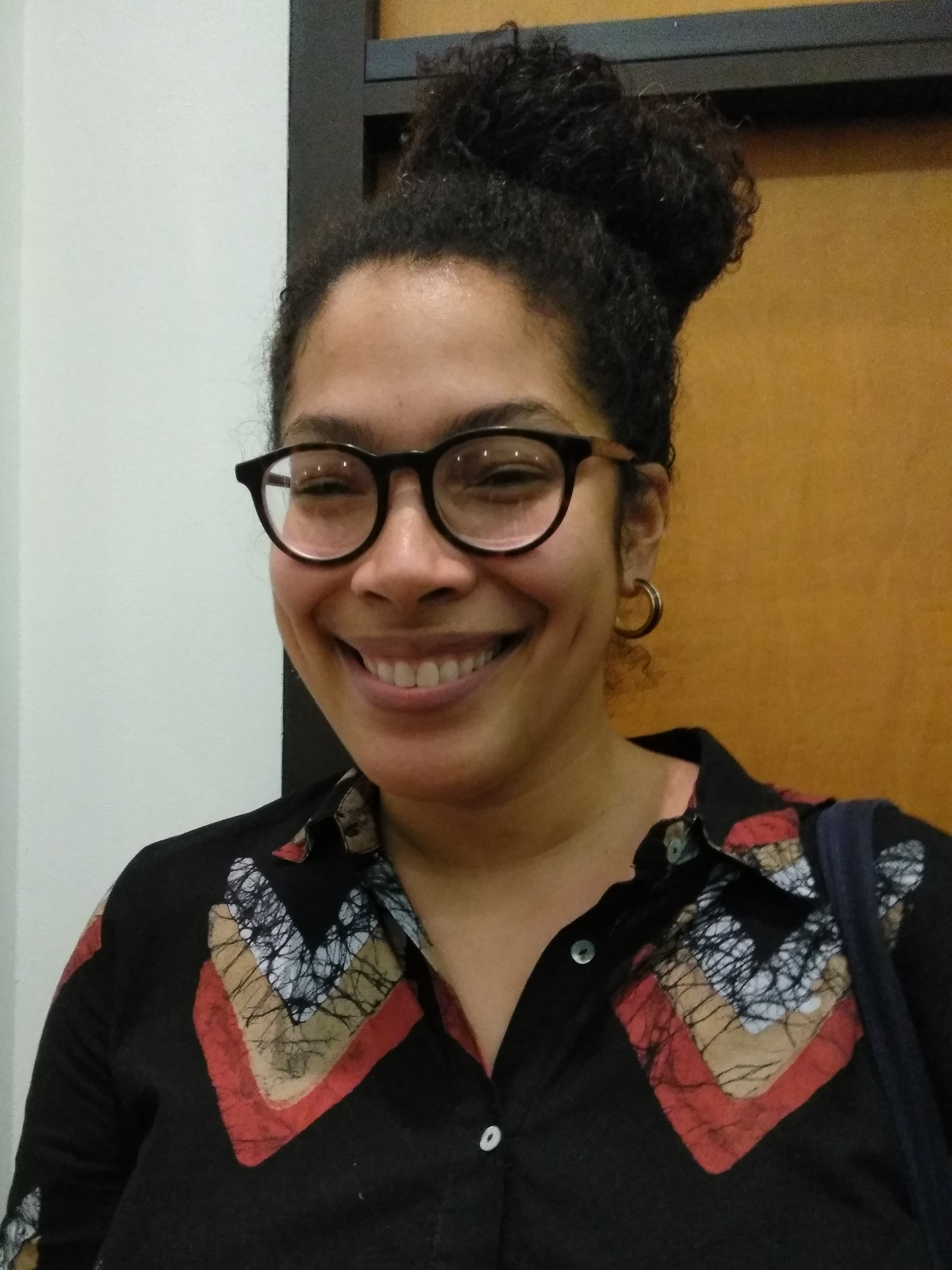 Jackie Sibbles Drury panelist at Theater Talks: Playwrights at the Schomburg Library in Harlem, NYC, January 22, 2018.